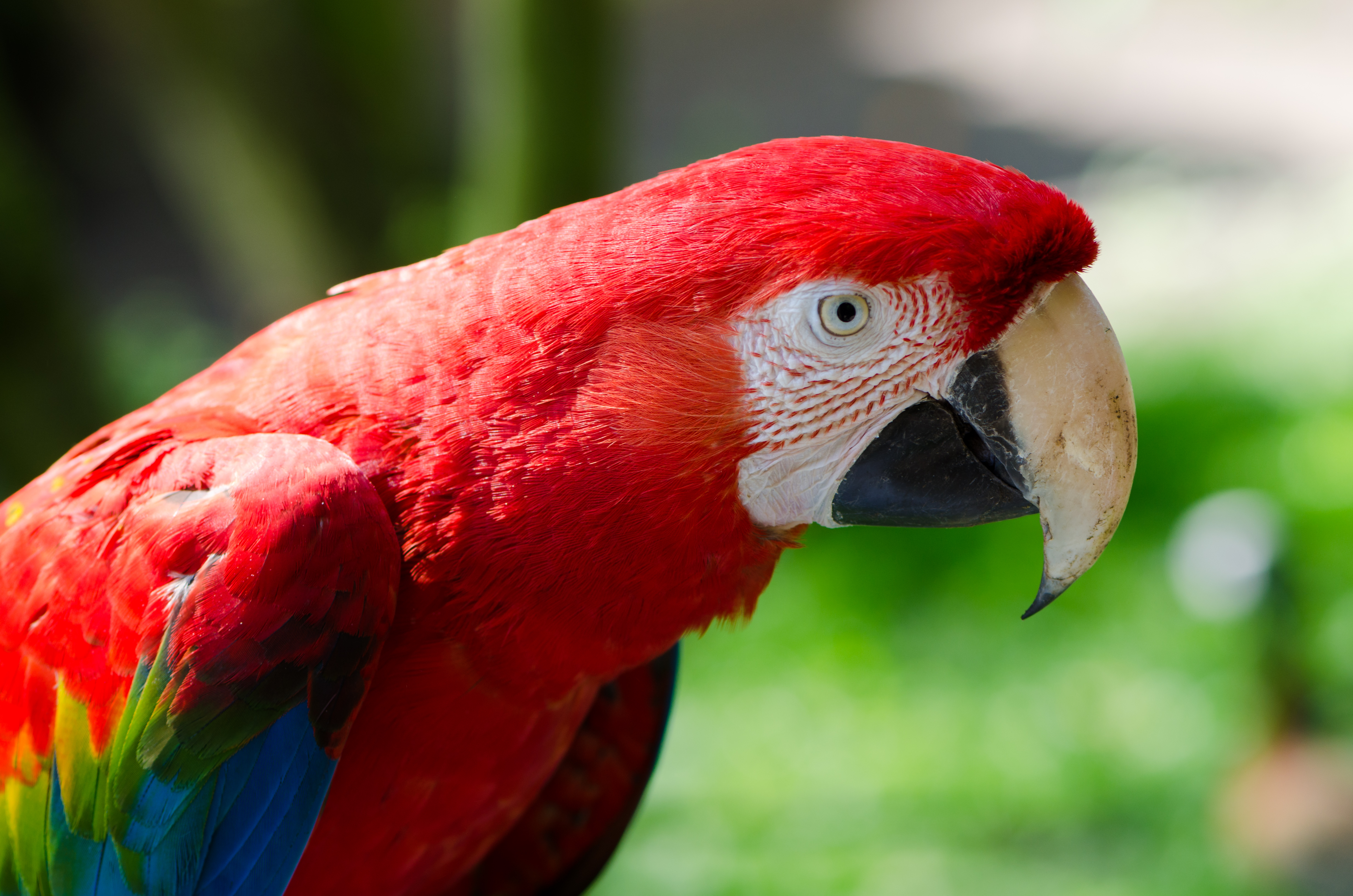 Scarlet Macaw, photographed in the zoo of Münster, Germany